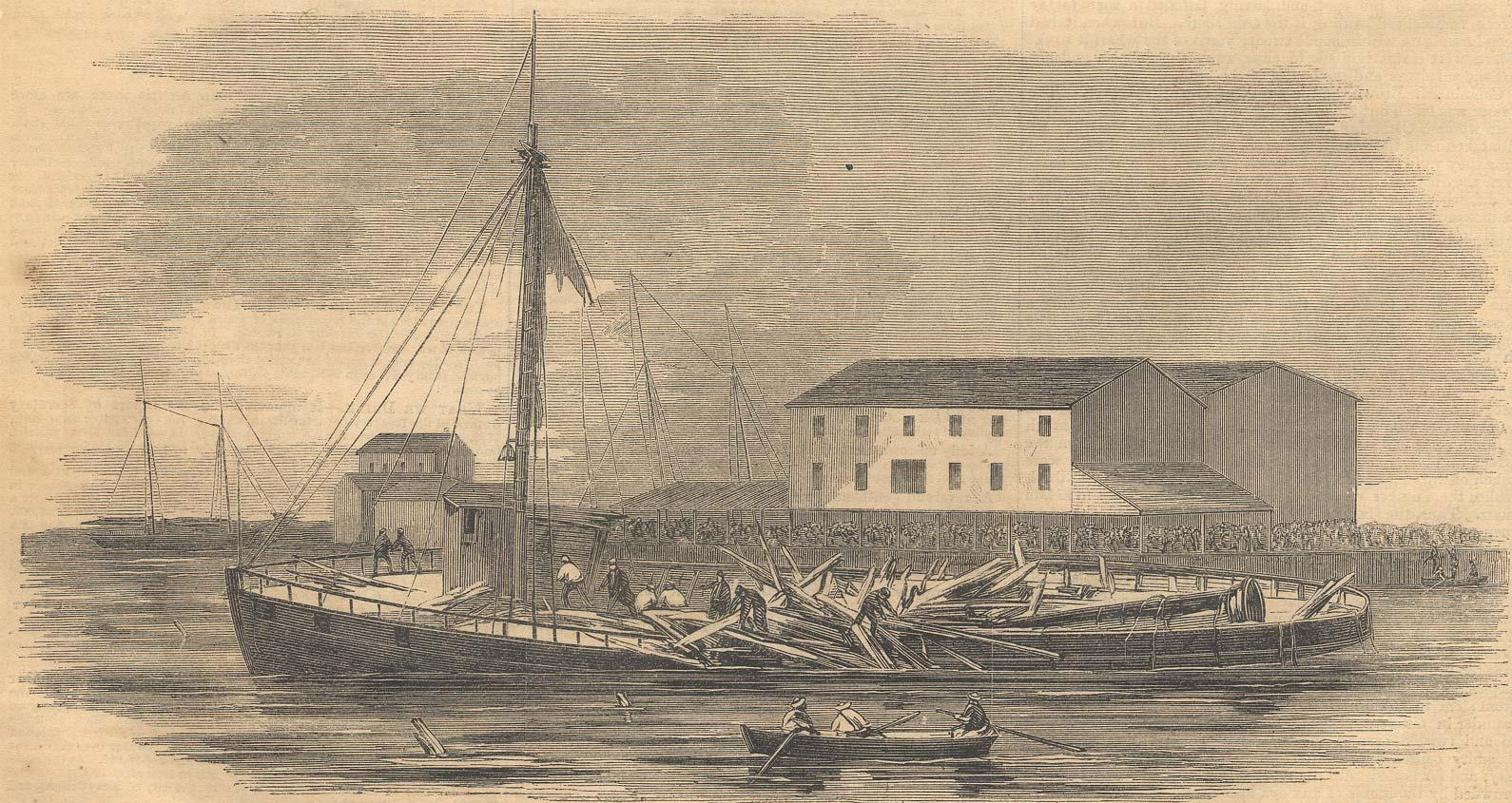 Woodcut engraving of the explosion of the steamboat Inkermann at Browne's Wharf on the Toronto waterfront, on 29 May 1857 in Toronto, Canada.